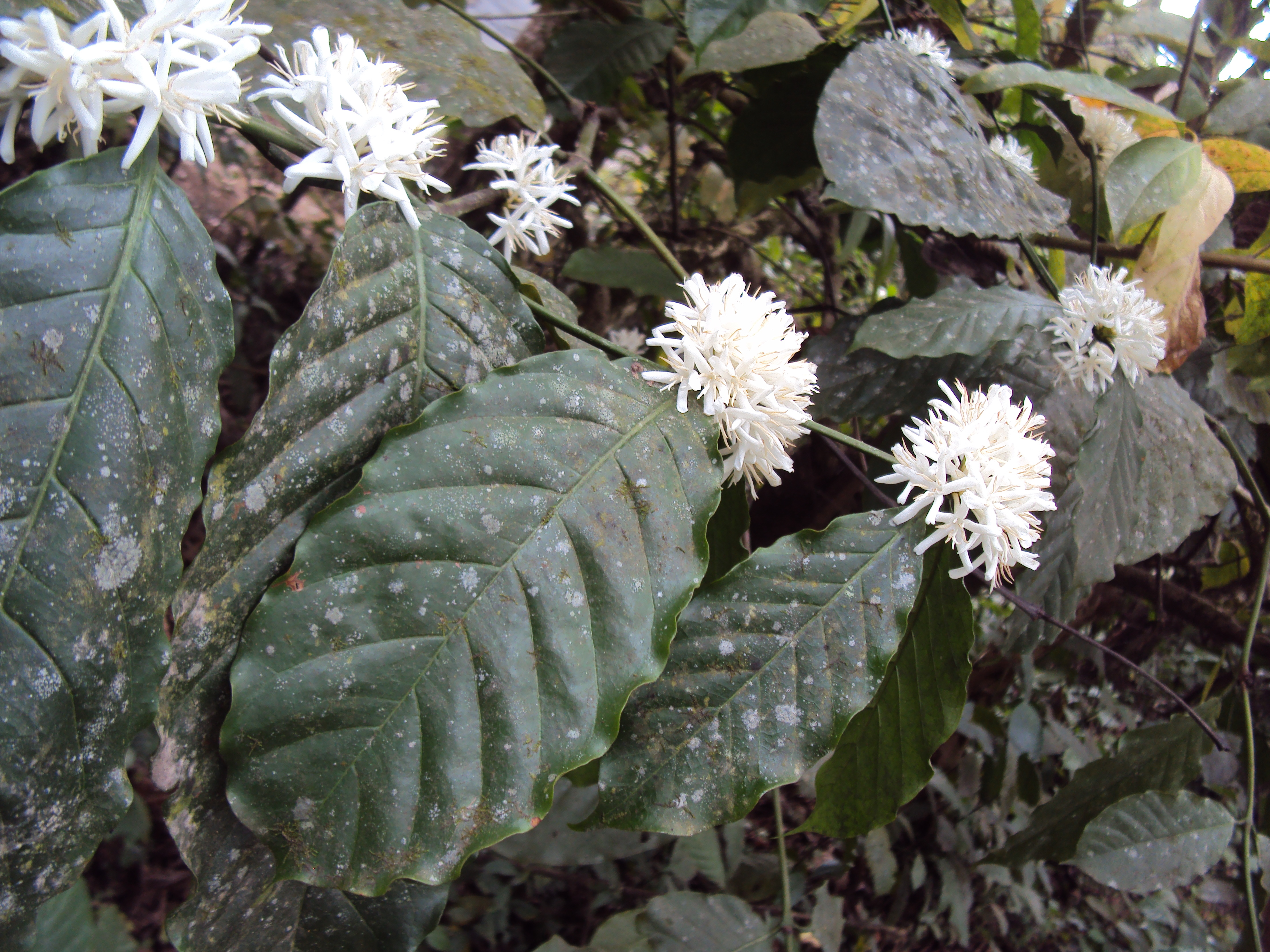 Coffea canephora